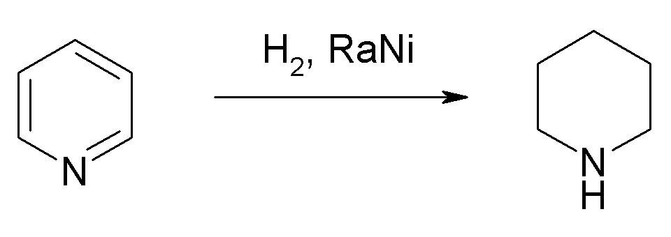 Hydrogenation of pyridine to piperidine